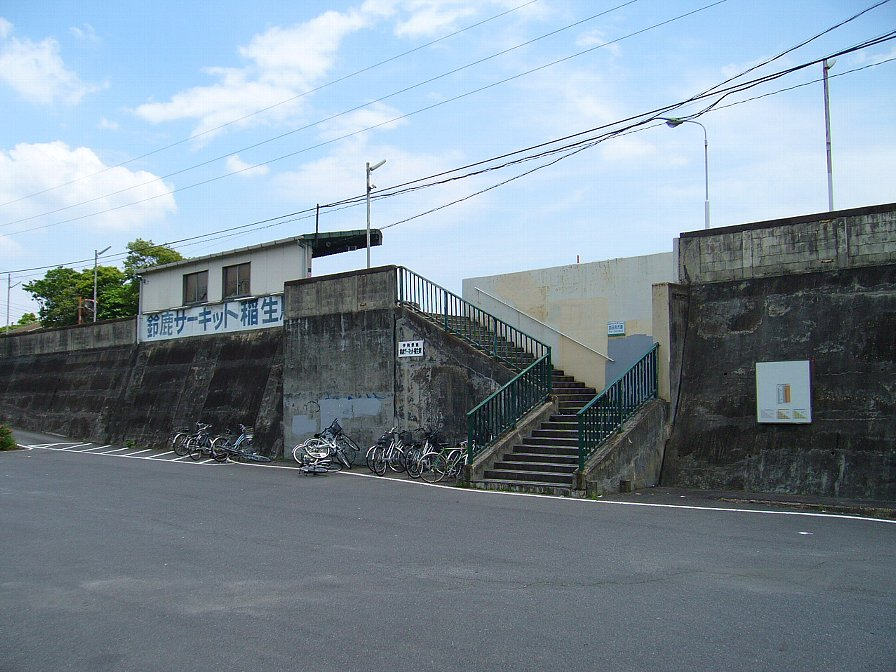 Suzuka Circuit Inō Station